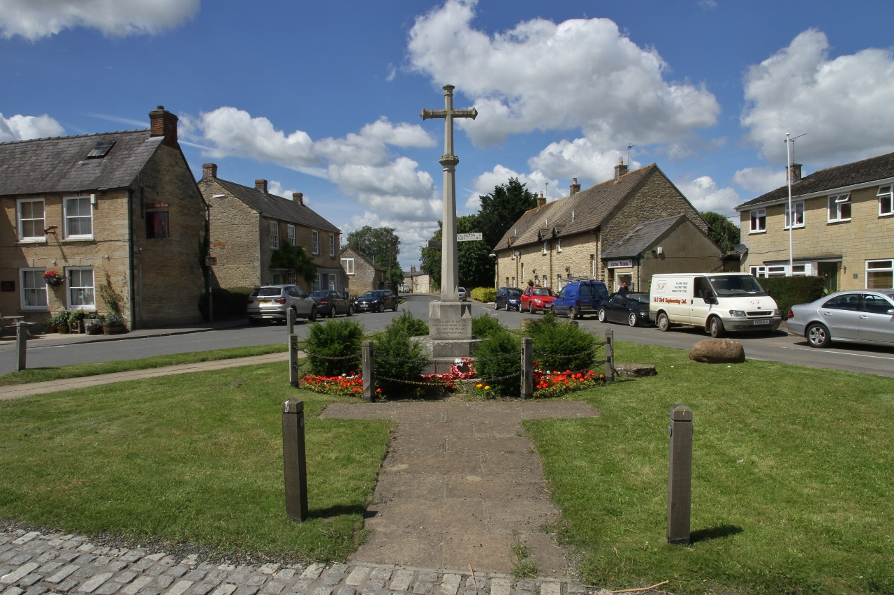 War Memorial in Aston, Oxfordshire, seen from the east